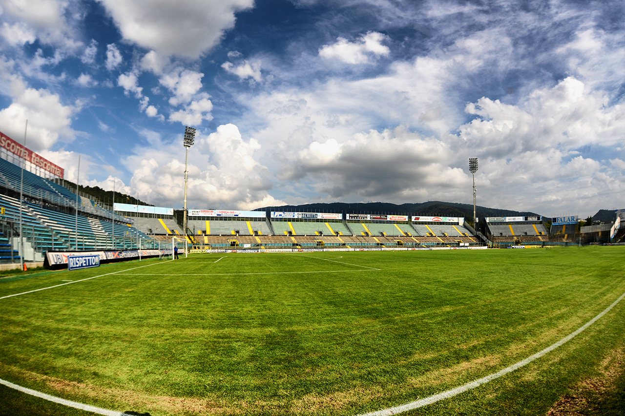 Stadio Mario Rigamonti in Brescia, Lombardy, Italy